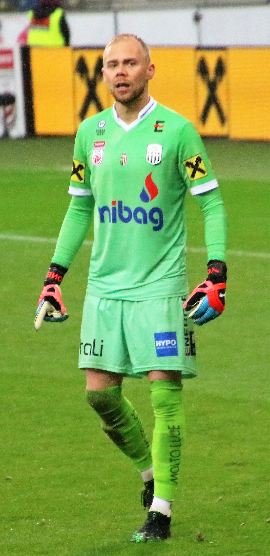 League match 30rd round